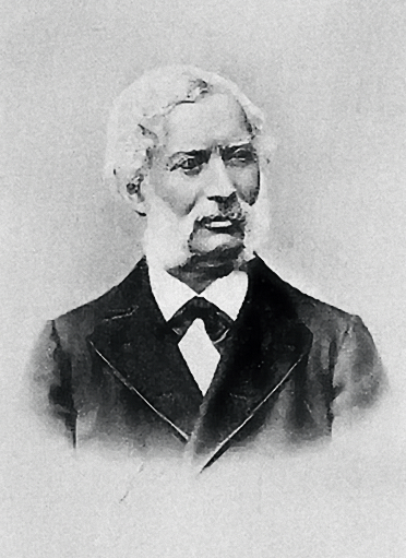 Dankschrift an Joseph Bondi 1861-1893 Gemeindevorsteher israelit. Gemeinde Dresden Variante